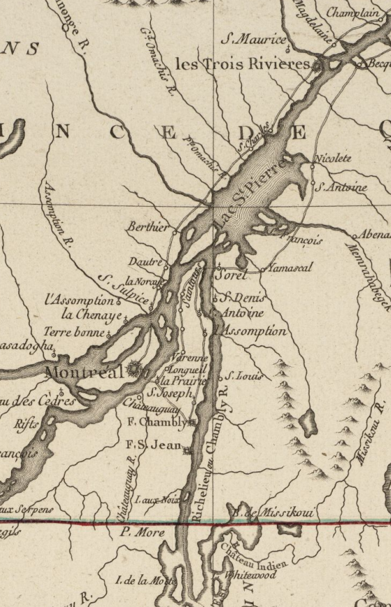 This is a detail from the source map, whose caption reads Carte du théatre de la guerre entre les Angais et les Américans (Map of the theater of war between the English and the Americans). This detail shows the valley of the Richelieu River, as well as the Saint Lawrence River from above Montreal to Trois-Rivières. The map includes